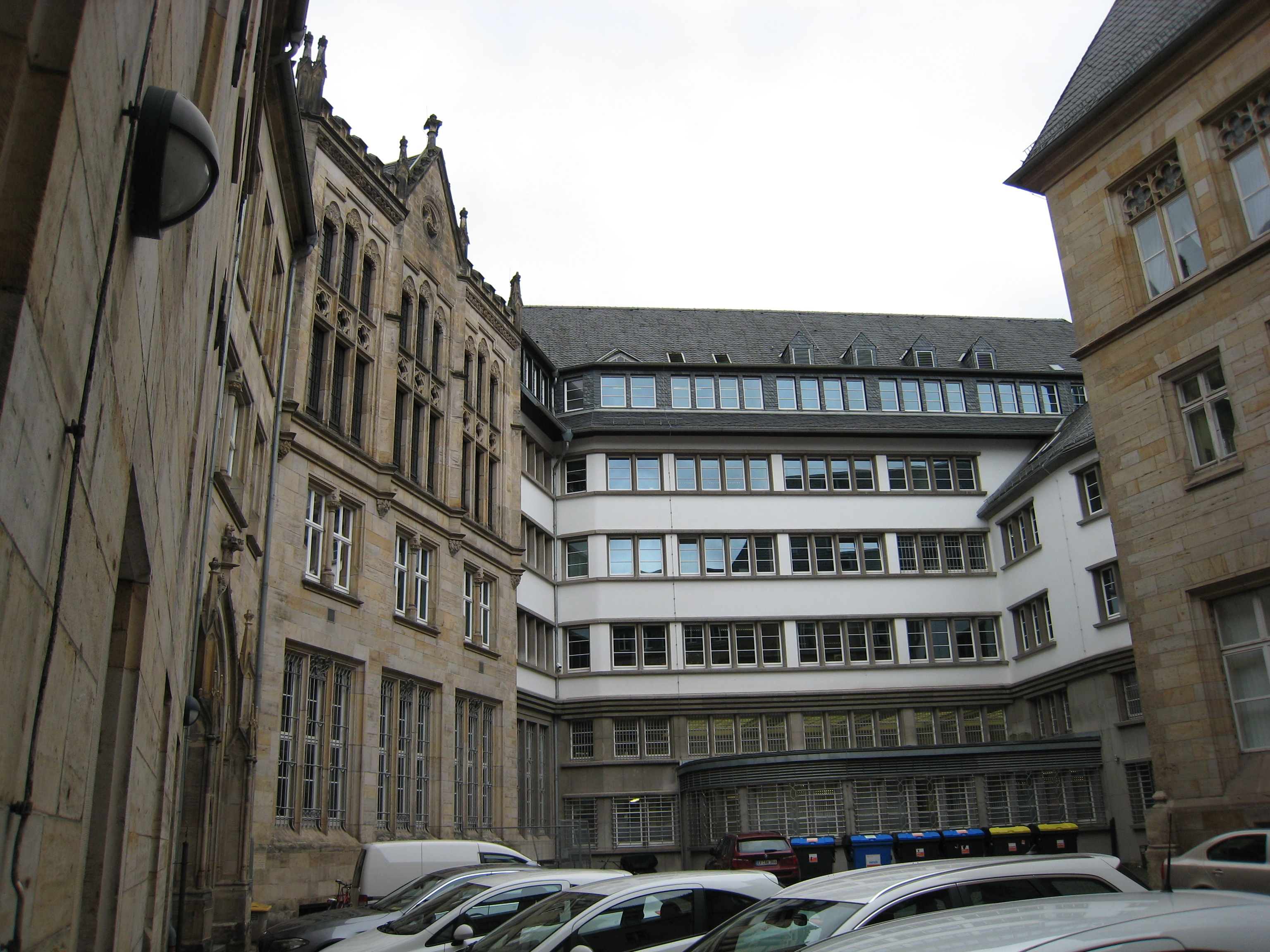 Erfurt town hall court, in the background Sparkasse